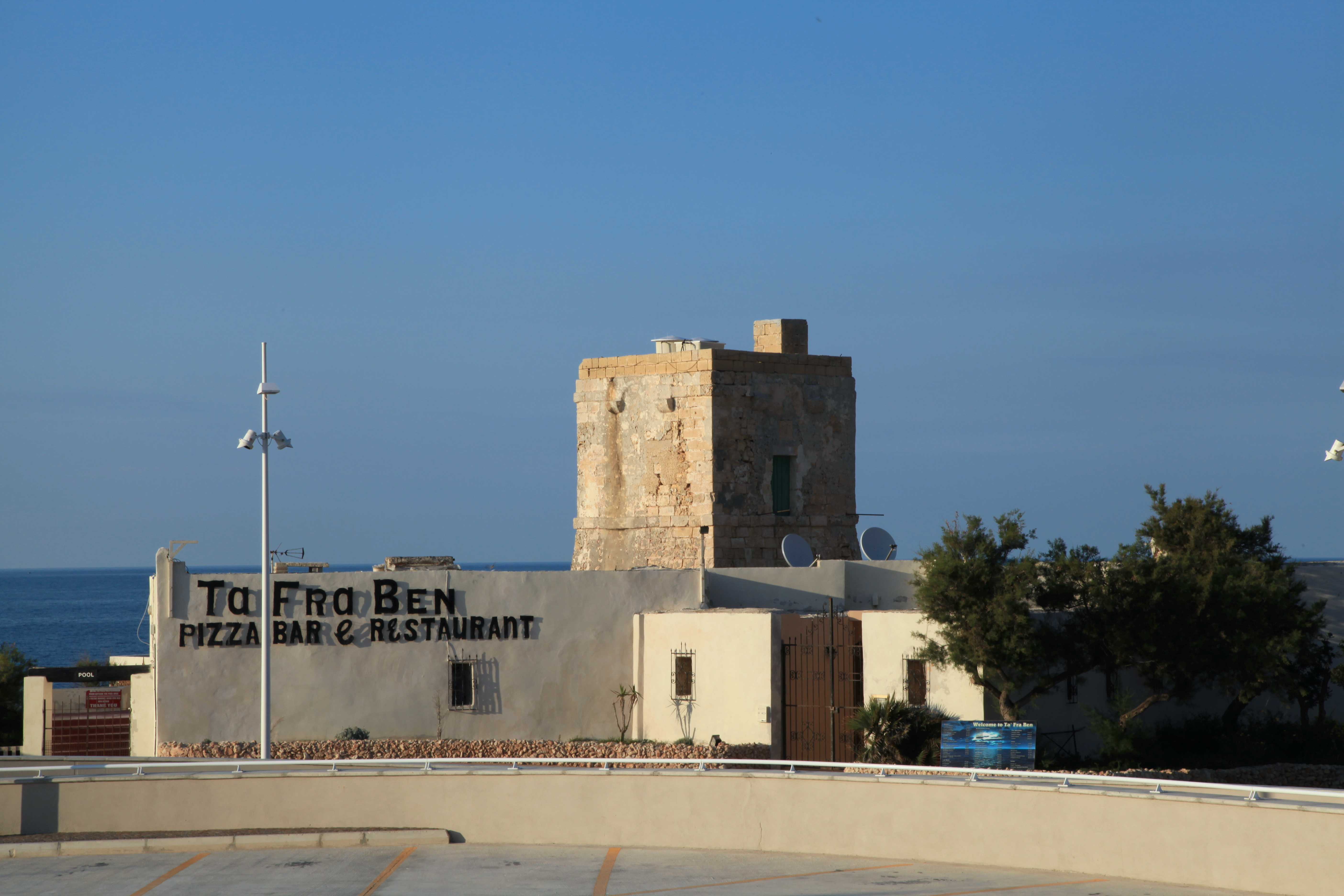 Qawra Tower at Ras il-Qawra, Triq it-Trunciera in St. Paul's Bay, Malta